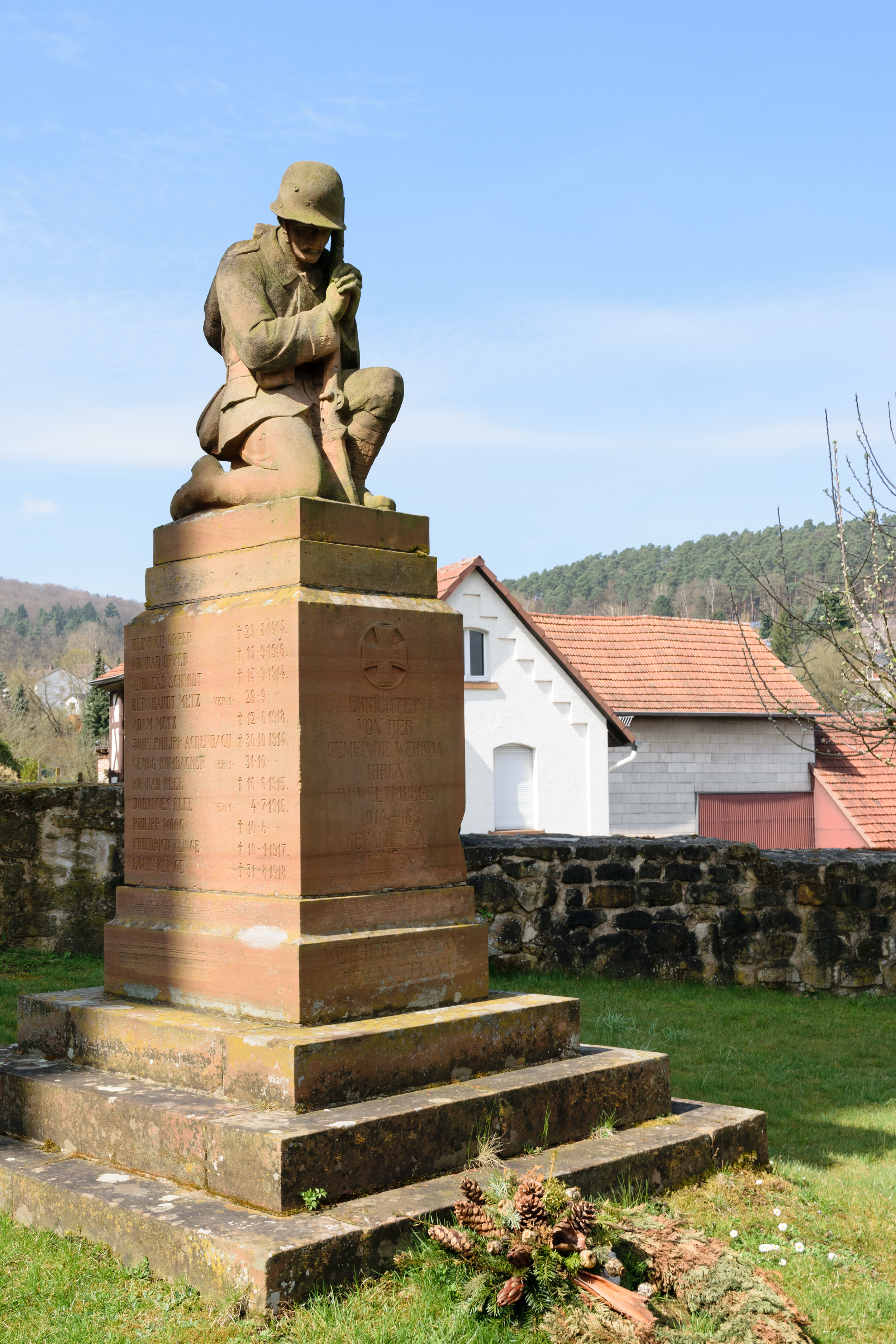 World War I memorial in Wehrda